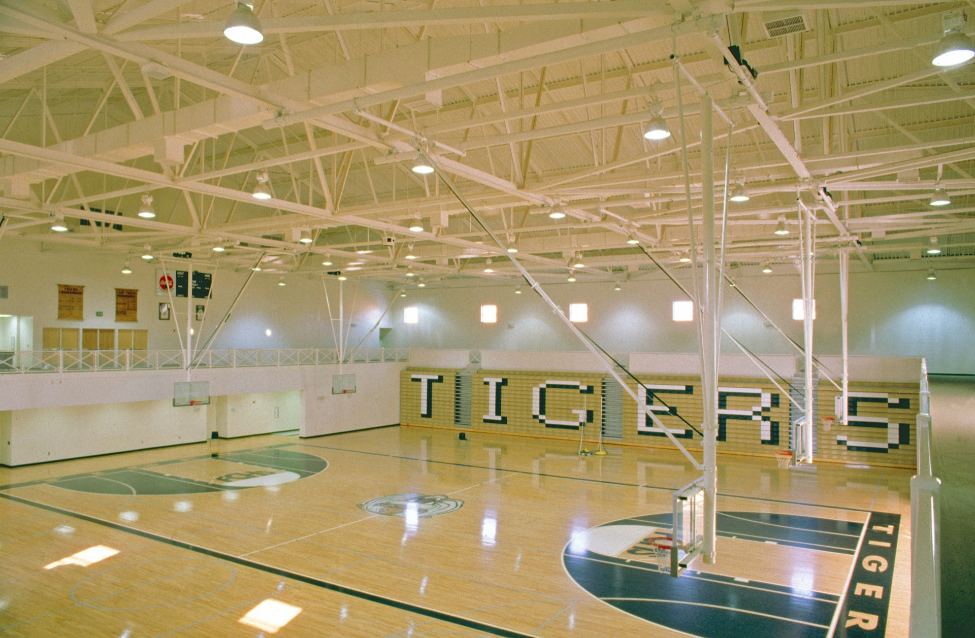 Gym